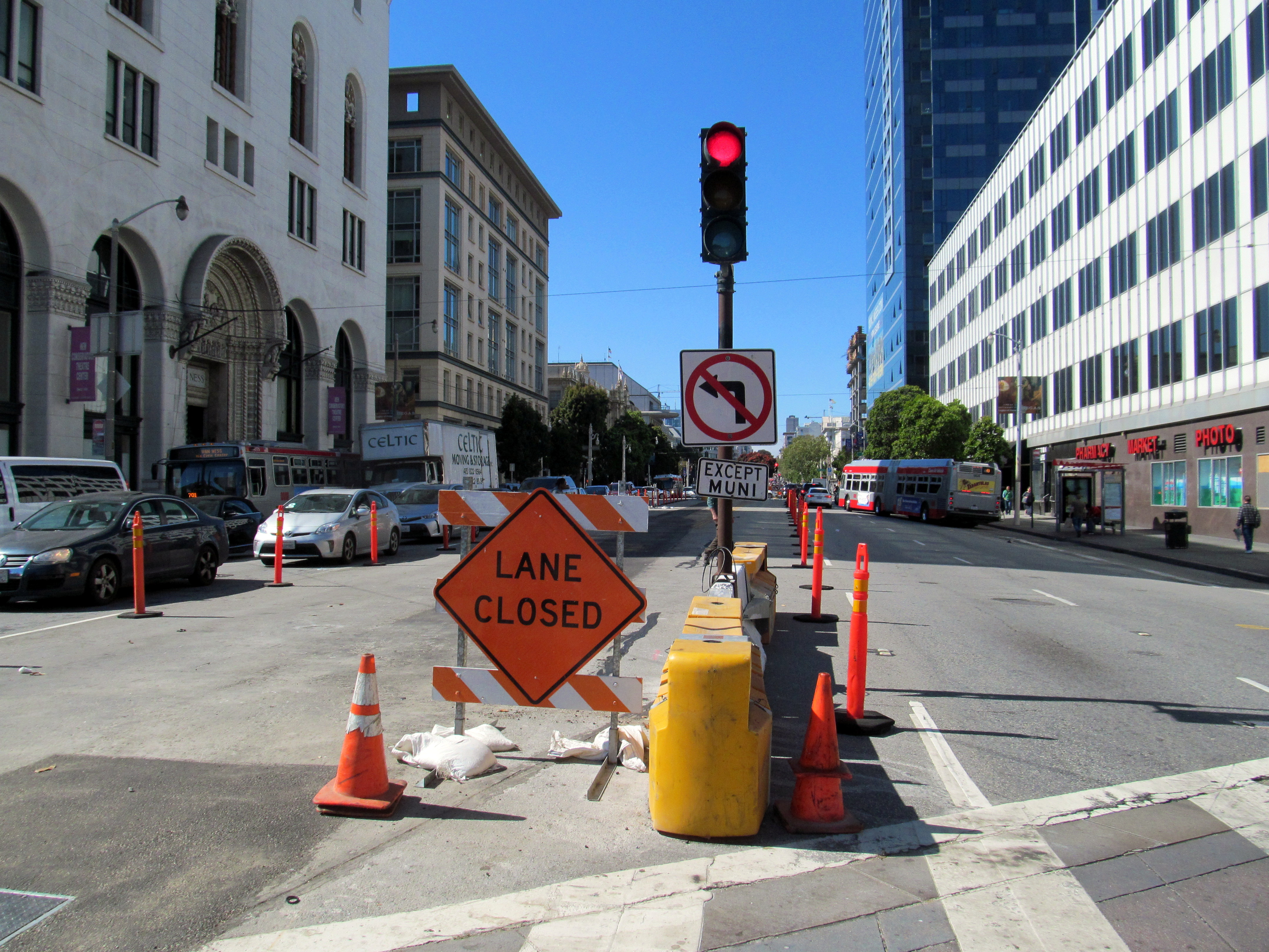 Lane closures for early work on Van Ness BRT construction in July 2017